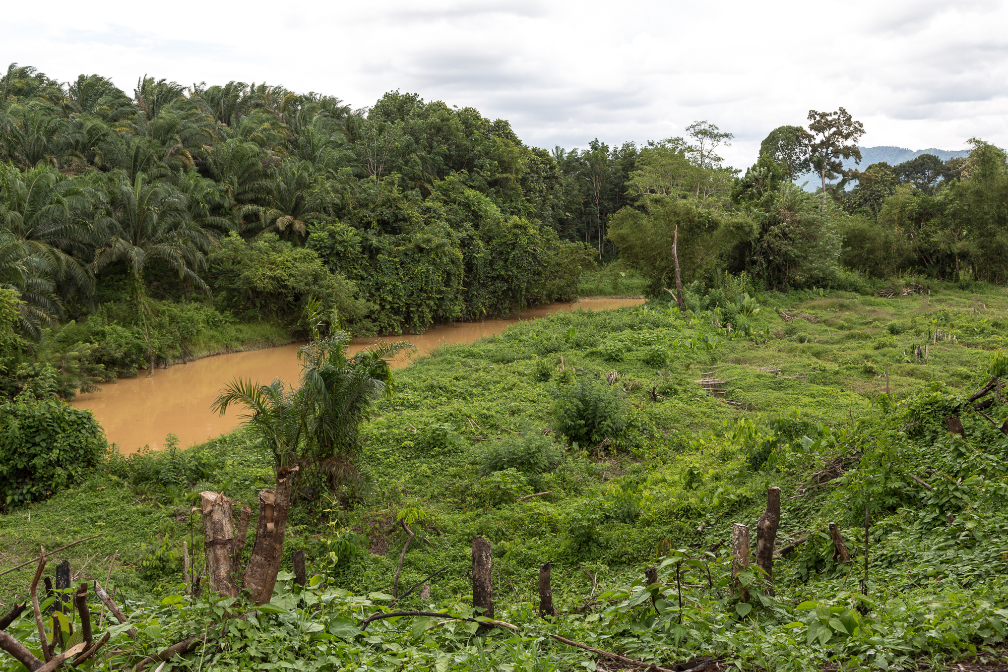 Kimanis, Sabah: Down the stairway of Thomas Bradley Harris' house to the Sungai Kimanis is an abandonned field where the former colony Ellena was located.